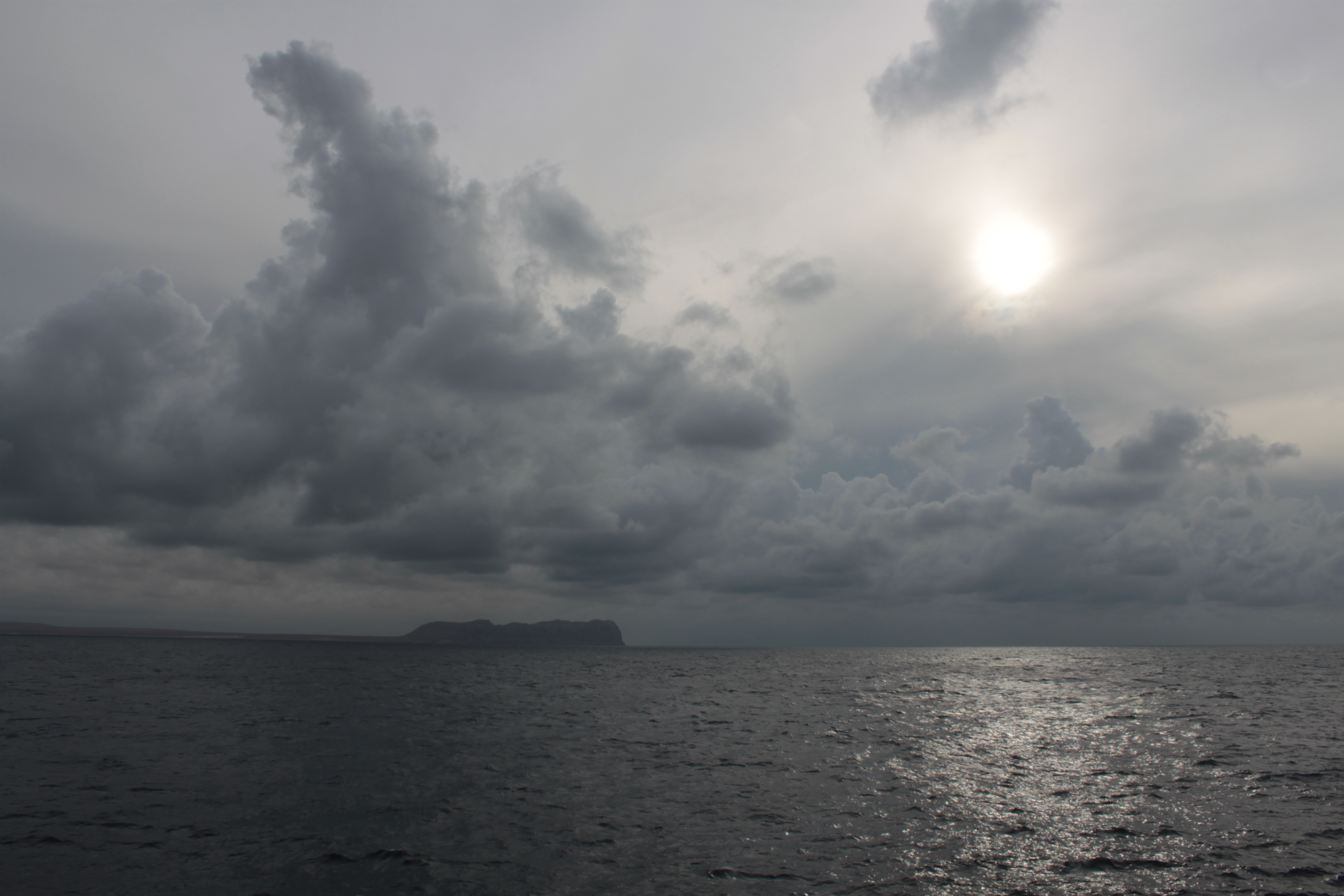 View of the headland of Ras Filuk